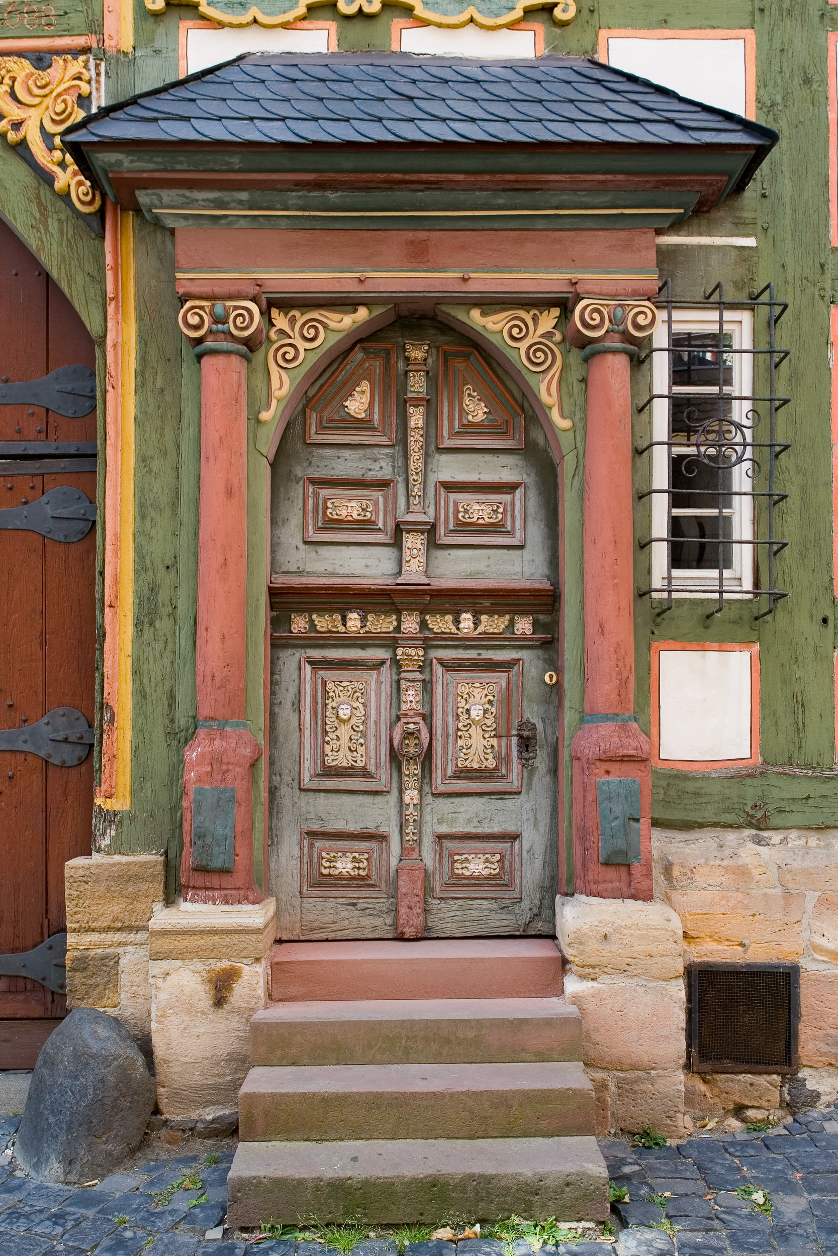 Alsfeld: Neurath's house, front door